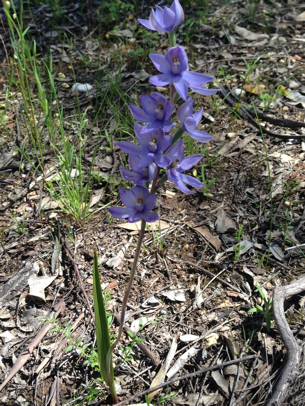 Thelymitra megacalyptra (labelled as Thelymitra megcalyptra) growing near Strathfieldsaye